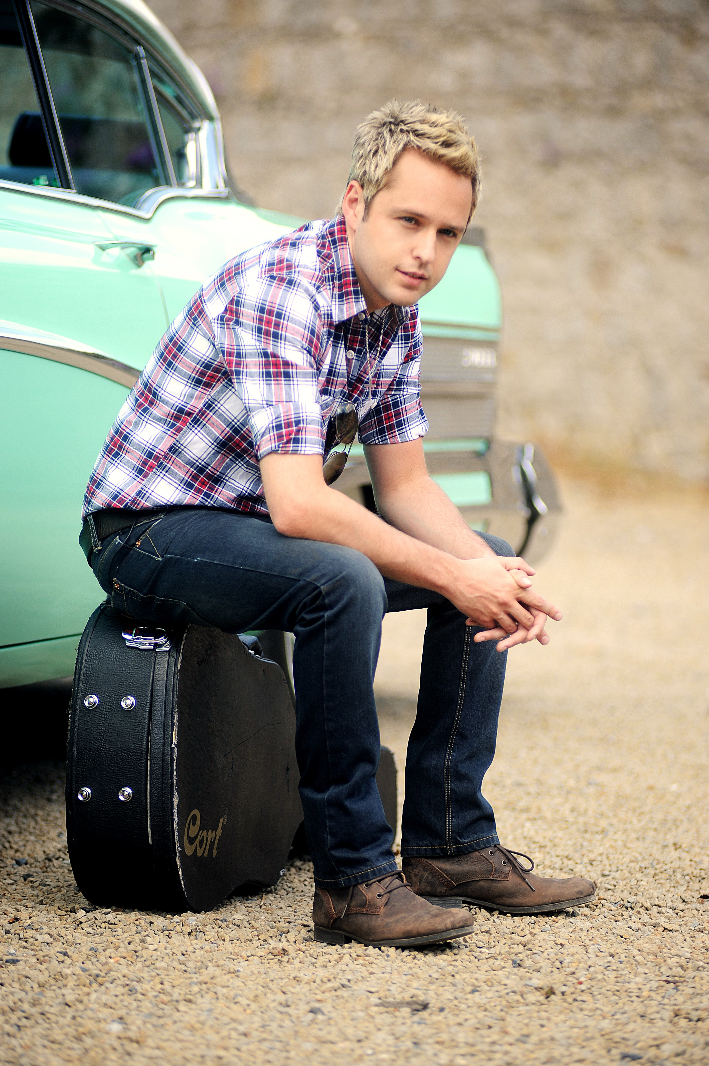 Derek Ryan Country Soul Album